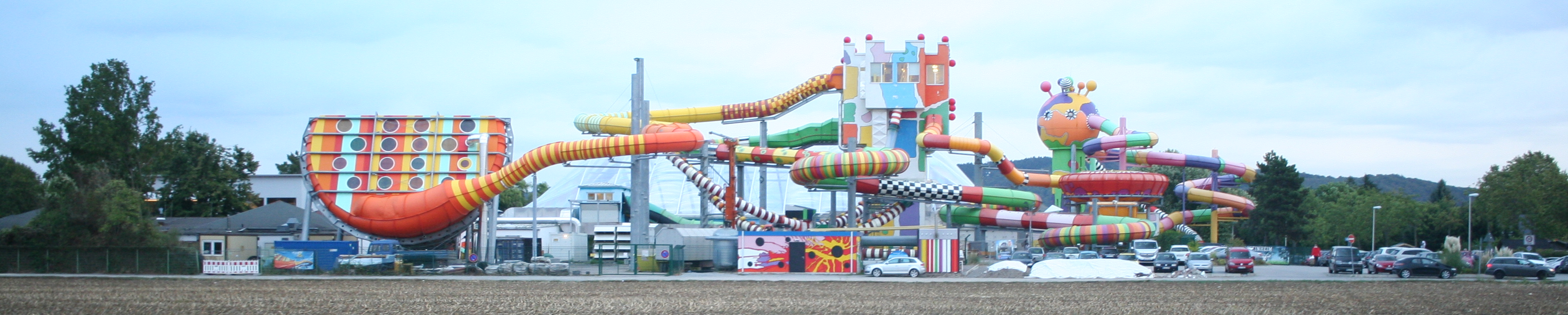 Water slides at Miramar (water park) in Weinheim, Germany. This tower has a rectangular staircase inside with entrances to four water slides: Race (lower meandering slide on left-hand side) Twister (upper meadering slide on left-hand side) Splash (round bowl on right-hand side) Hurricane Loop (vertical drop in centre)